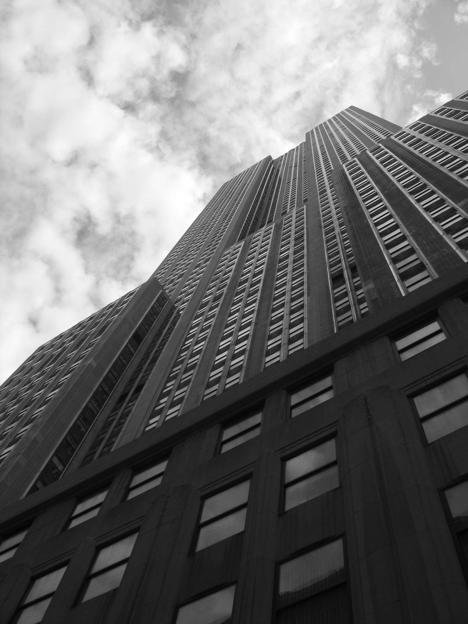 Empire State Building